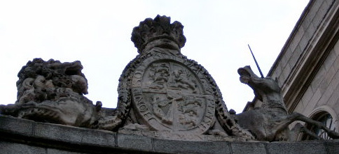 cropped Picture of the coat of arms of the Kingdom of Ireland - no copyright issues, I should know, I took it at 8.30pm last night